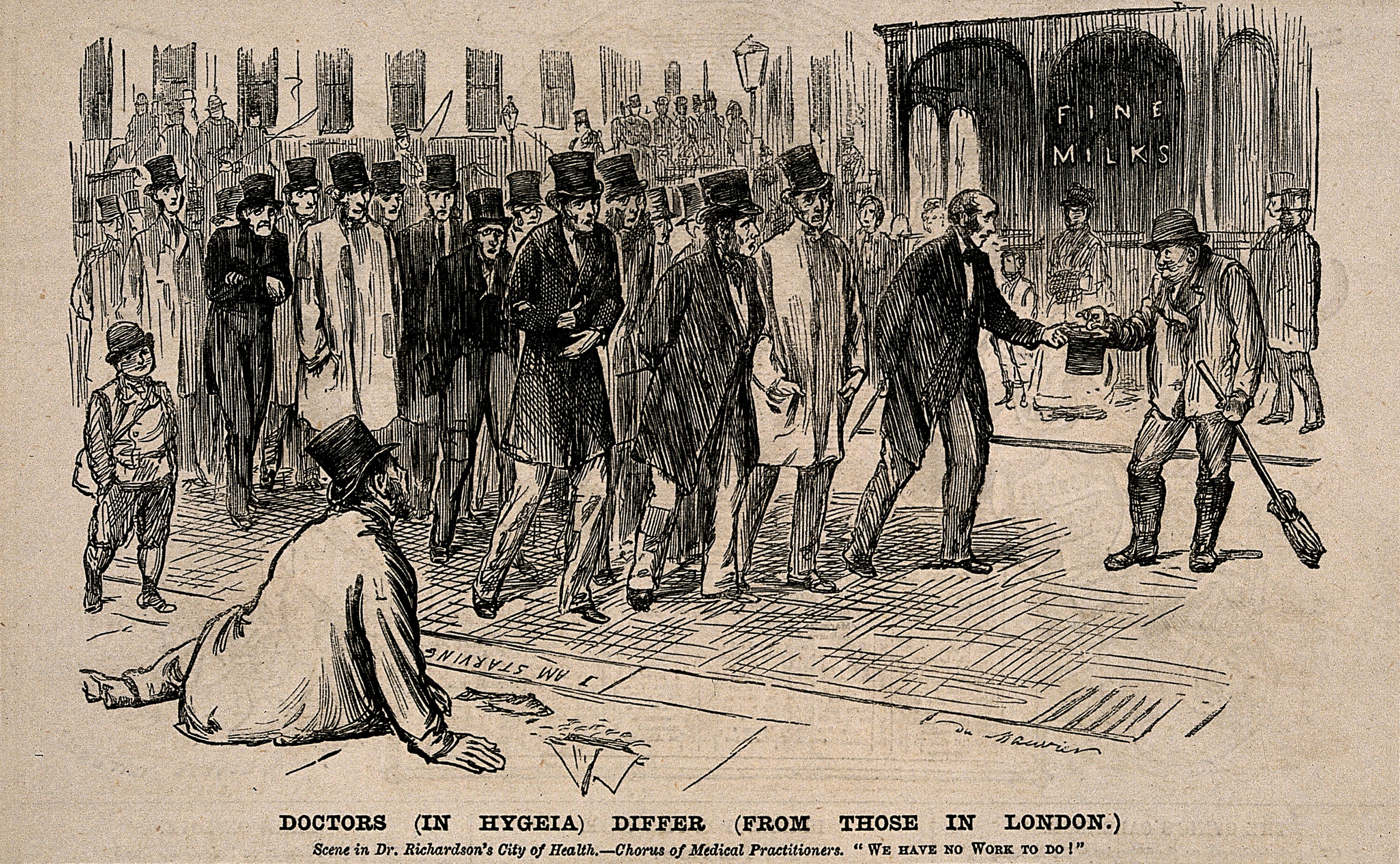 A group of emaciated and starving physicians lamenting their lack of work. Wood engraving after G. Du Maurier, 1875. Iconographic Collections Keywords: Benjamin Ward Richardson; George Louis Palmella Busson Du Maurier